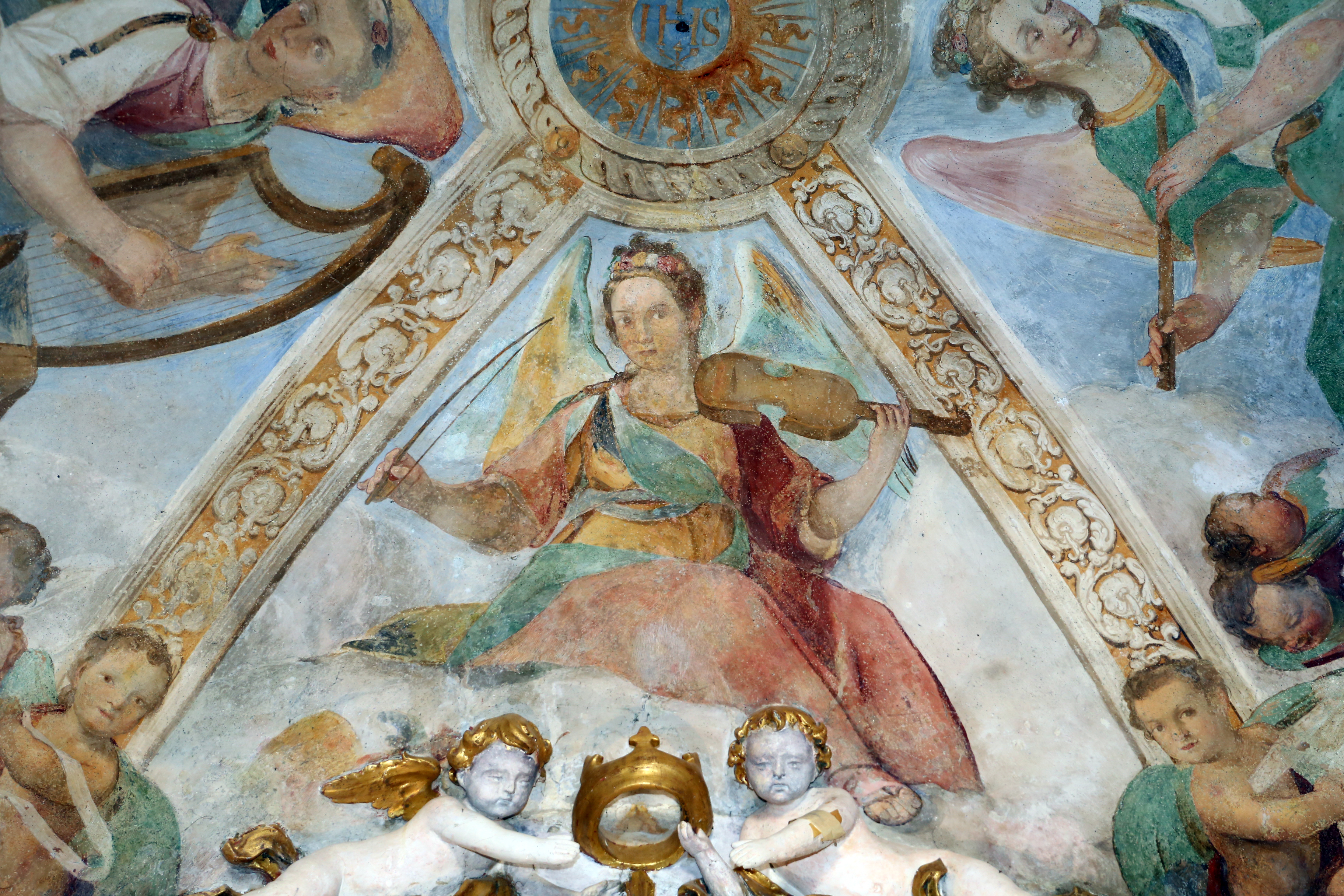 San Niccolò a Casole d'Elsa